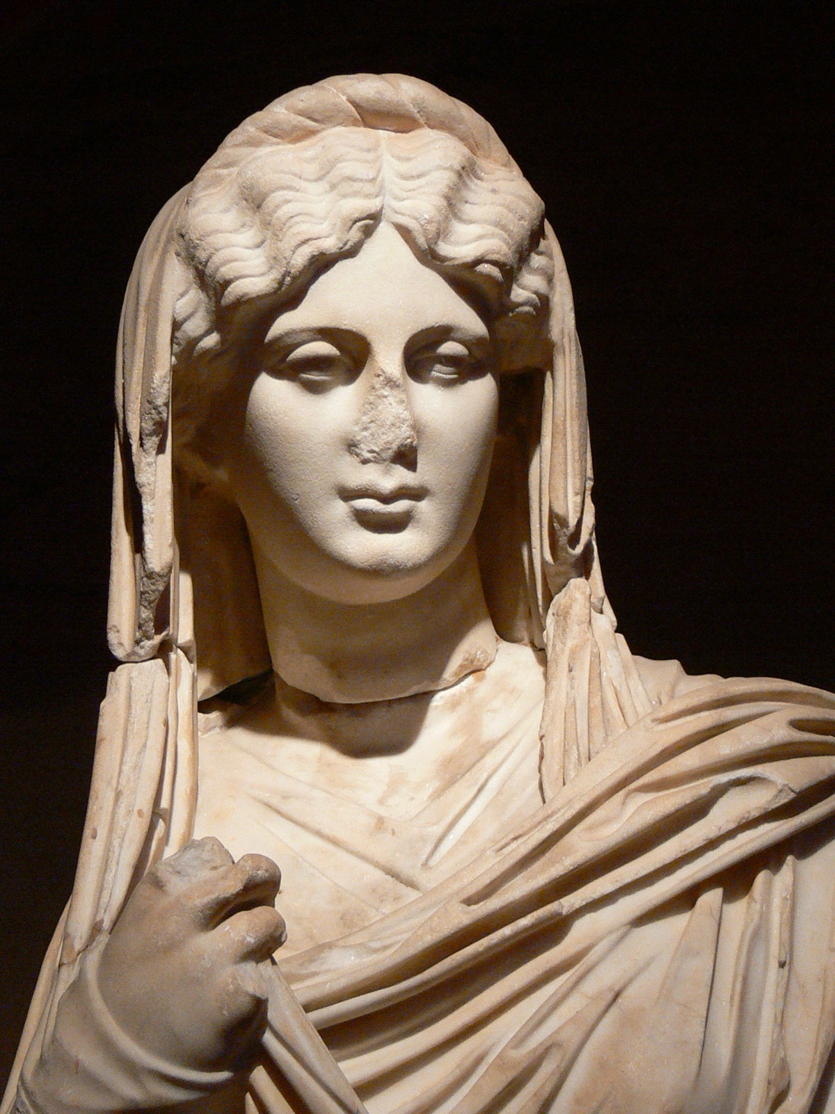 Antalya Archeological Museum.Perge collections: Statue of Faustina maior ( 2nd century AD ).